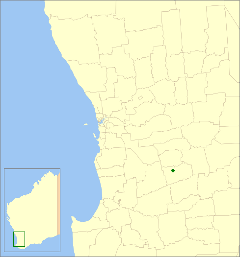 Description=Location of the Local Government Area in Western Australia